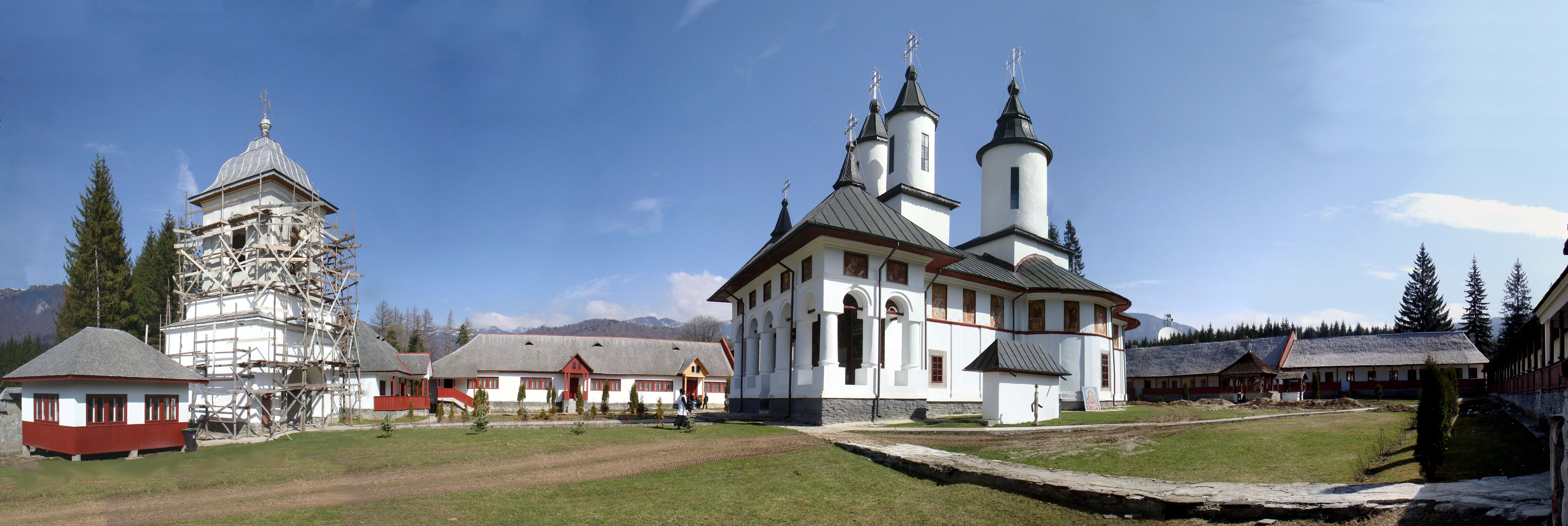 Panorama of Cheia Monastery complex, with bell tower under restoration. A panorama image of 20 individual photographs stitched together ((Microsoft Image Composite Editor).